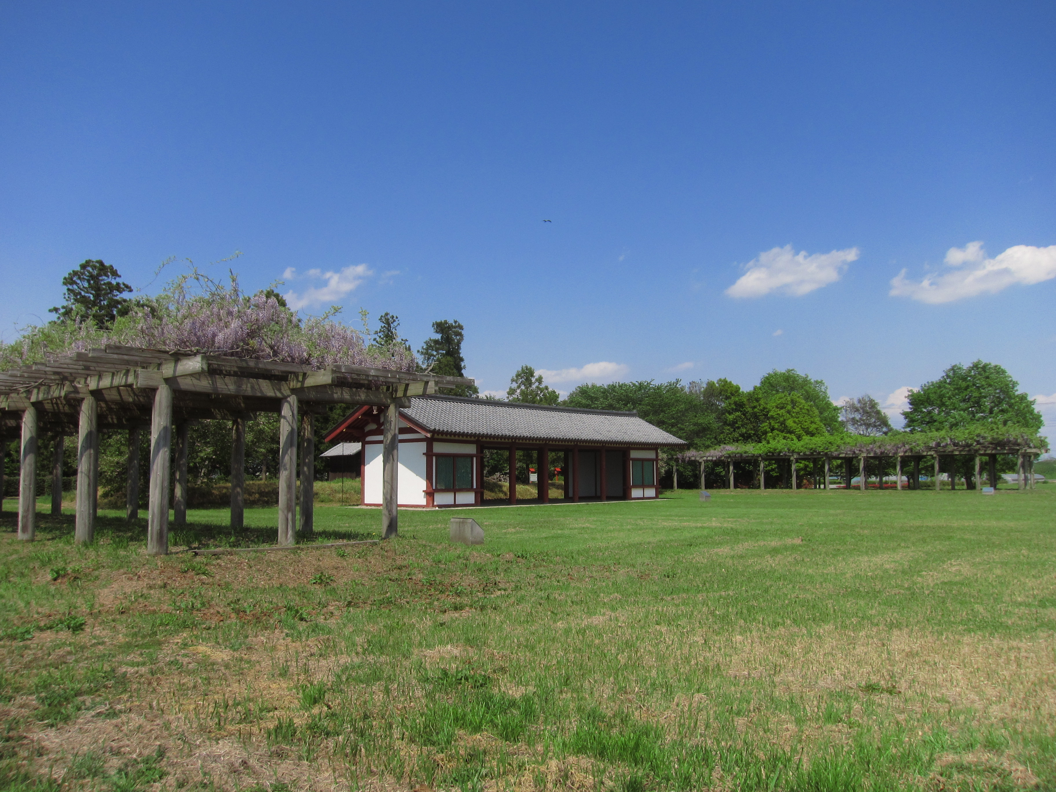 Shimotsuke Provincial Offices Site